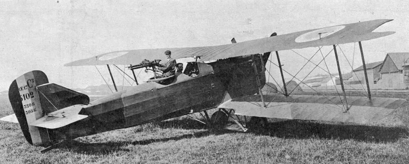 Breguet 17 C.2 photo from L'Aéronautique December,1922